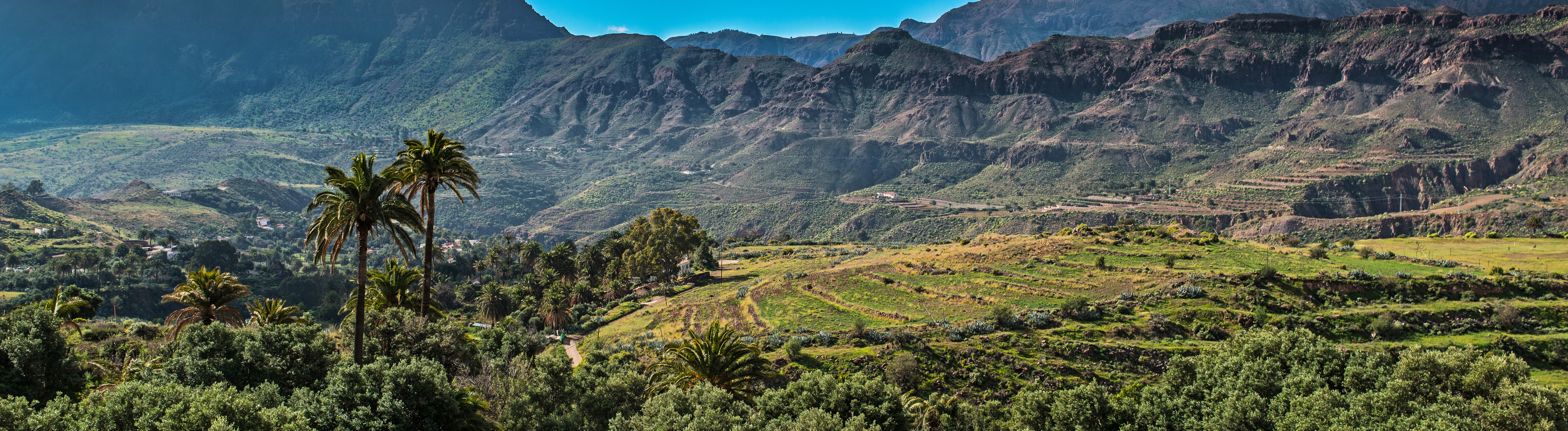 Santa Lucia de Tirajana Gran Canaria January 2016